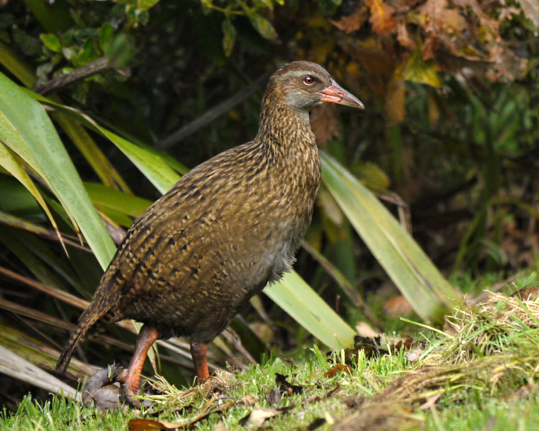 A Weka in Picton, Marlborough, New Zealand.